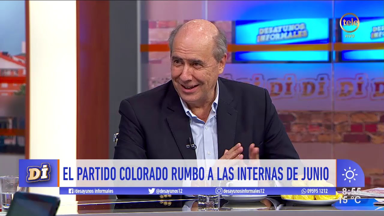 Amorin Batlle.